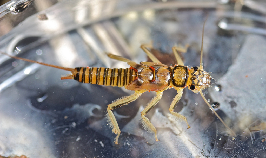 G: Yugus Taken by Bob Henricks on 24 March 2011. Rights reserved from CC BY-SA 2.0 license.